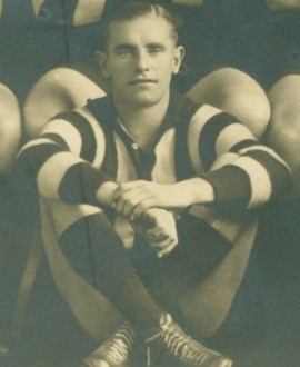 Photograph of Jack Carmody in 1935